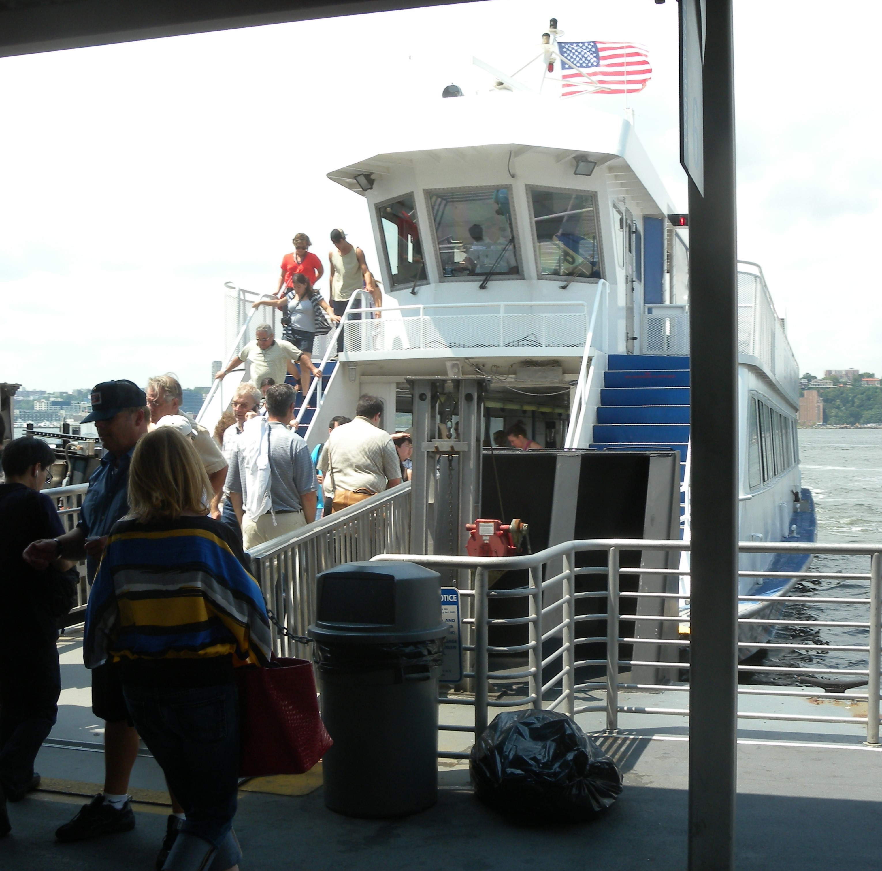 Looking west from West Midtown Ferry Terminal at NY Waterway boat passengers boarding and alighting.